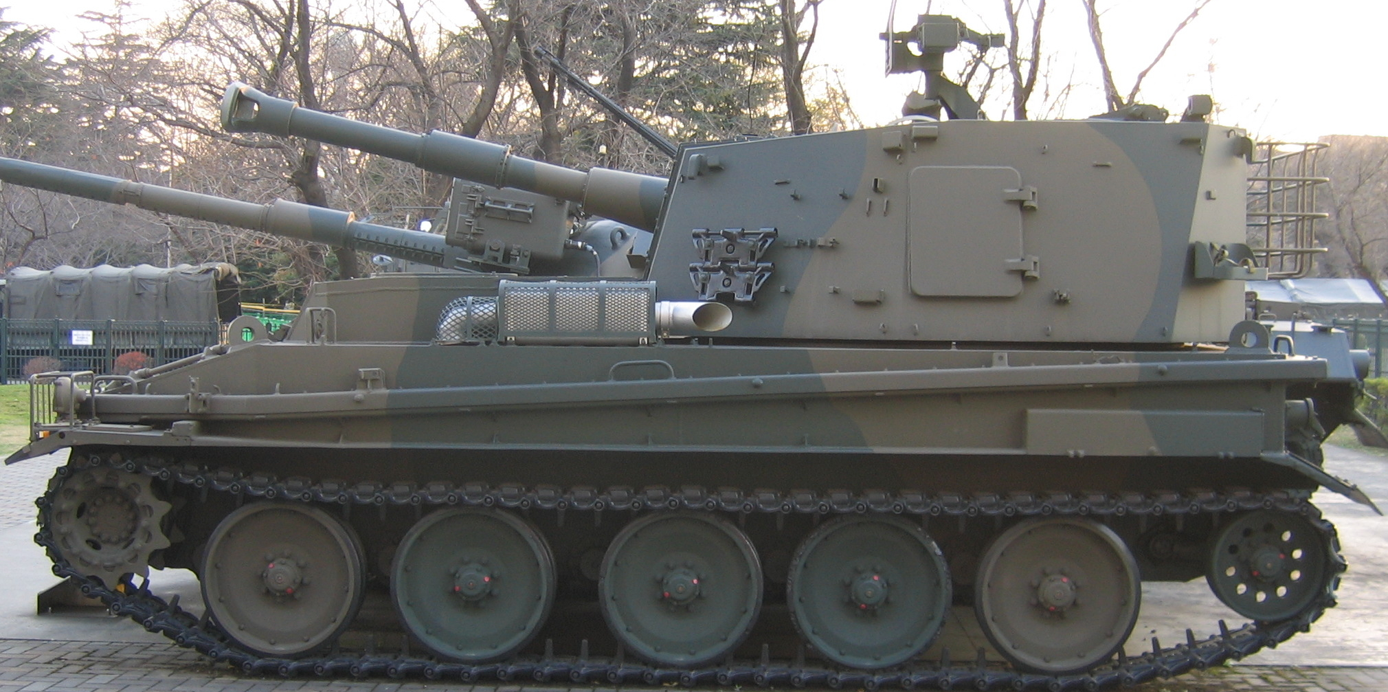 Right side view of the Type 74 self-propelled howitzer at the JSDF Public Information Museum.